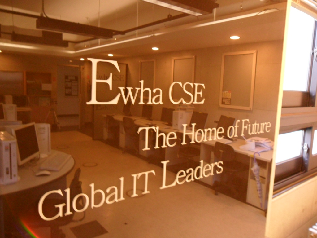 Ewha CSE picture